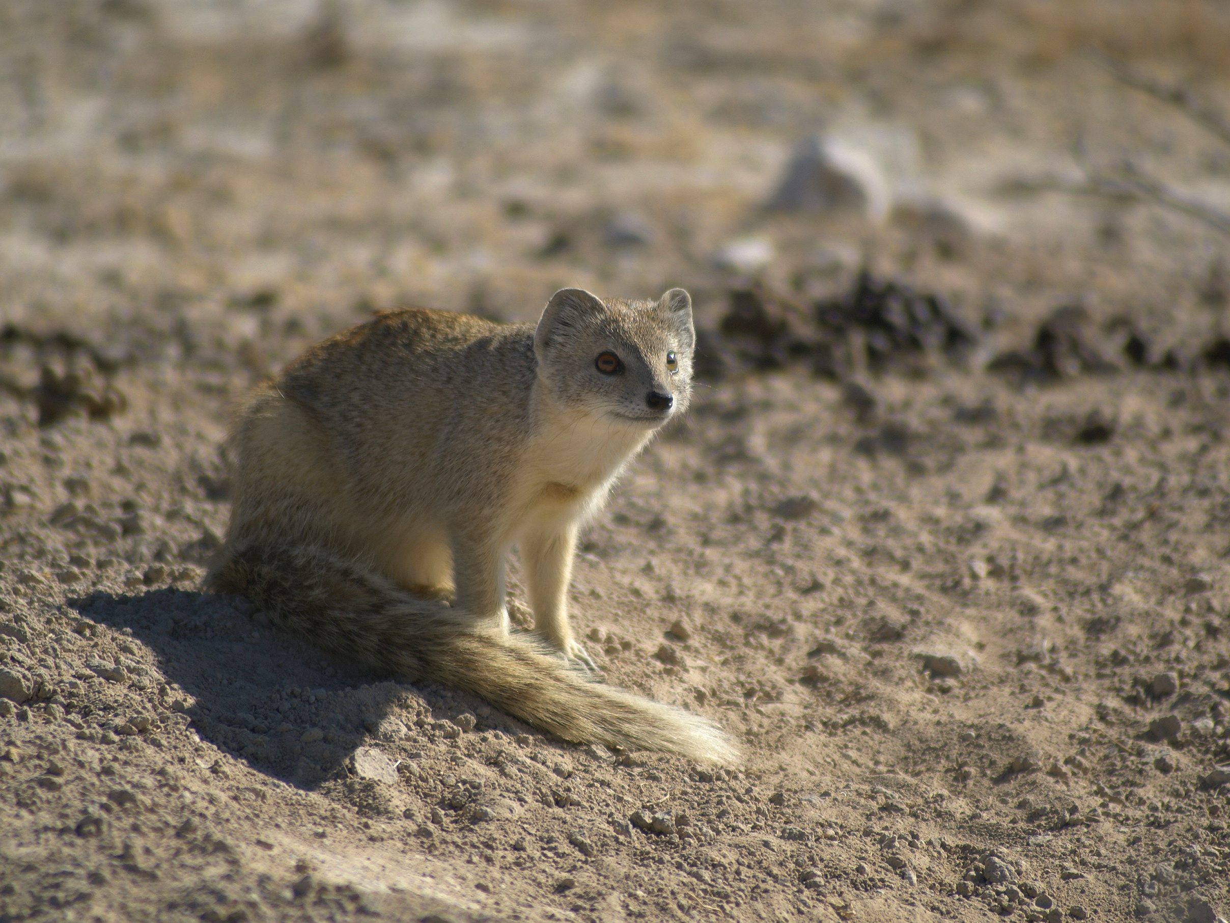 A Yellow Mongoose in western Etosha National Park, Namibia. The species is endemic to southern Africa and ranges to southern Angola. The greyer pelt is characteristic of the northerly population. References: Identification: Smithers, R. H. N. & C. Abbott, (1986). Land mammals of southern Africa : a field guide, Braamfontein, Johannesburg, Macmillan South Africa. ↑ Cynictis penicillata at Namibian Biodiversity Database